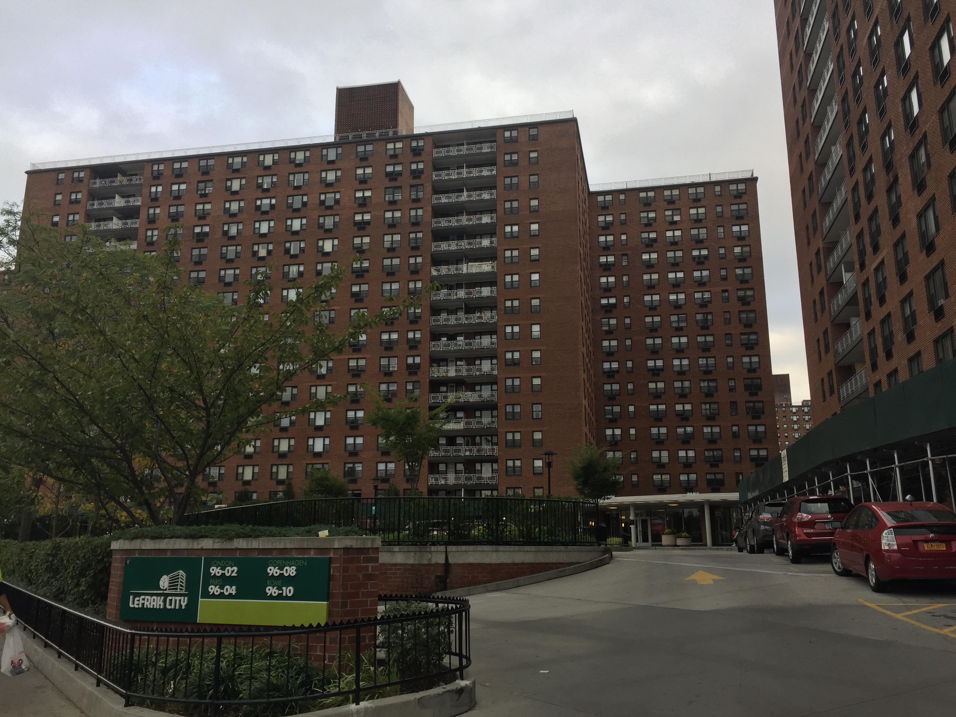 One of the biggest apartment buildings in South Queen, New York